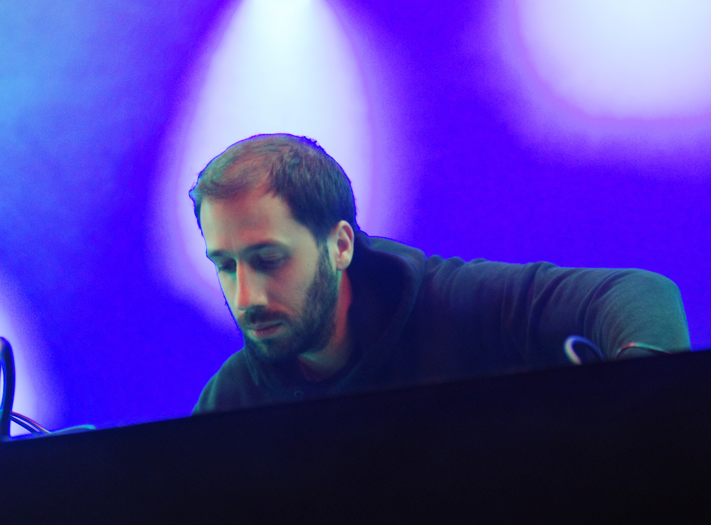 Gold Panda, electronic music producer, performer, and composer from the United Kingdom, performing at Haldern Pop 2013